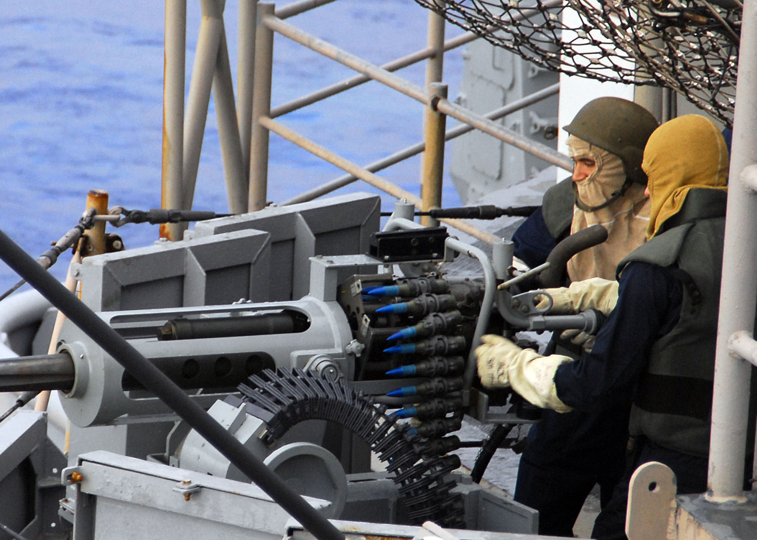 SOUTH CHINA SEA (April 21, 2009) Gunner's Mate 3rd Class Edward P. Oyola, from Jamaica, N.Y., and Gunner's Mate 2nd Class Anthony A. Jenkins, from Independence, Mo., prepare a 25mm crew-served weapon before a live-fire exercise aboard the amphibious assault ship USS Essex (LHD 2). Essex is participating in Balikatan 2009, an annual combined, joint-bilateral exercise involving U.S. and Armed Forces of the Philippines personnel, as well as subject matter experts from Philippine civil defense agencies. (U.S. Navy photo by Mass Communication Specialist Seaman Casey H. Kyhl/Released)